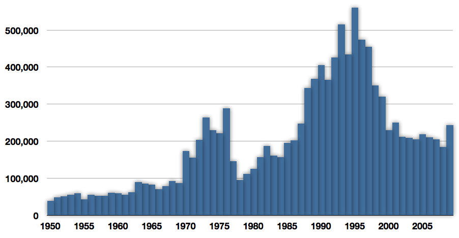 Fisheries recorded capture of Trachurus trachurus from 1950 to 2009. Data source FAO fisheries